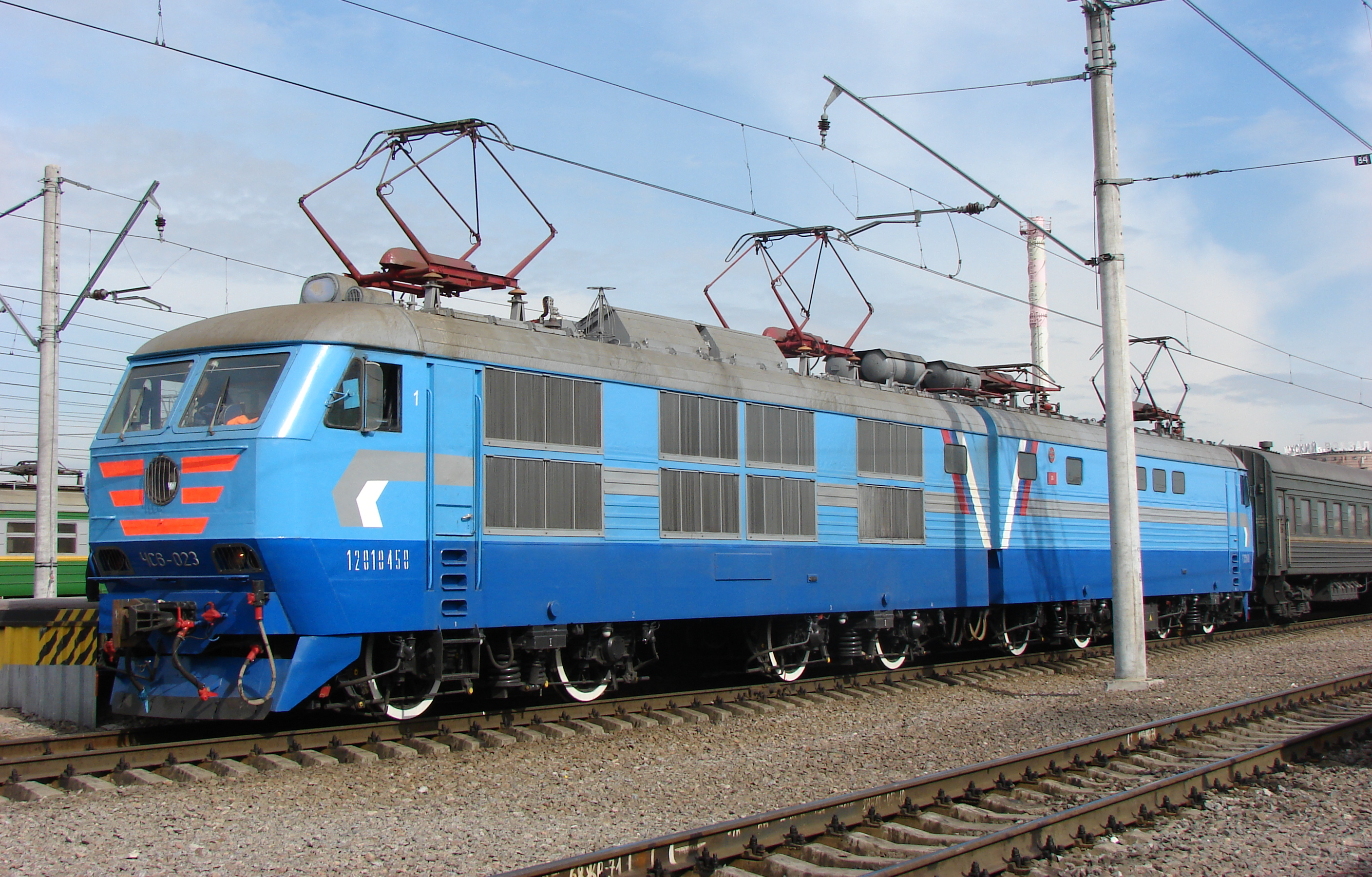 Electric locomotive Chs6 (50E2) with Murmansk - Saint-Petersburg (Russia) train